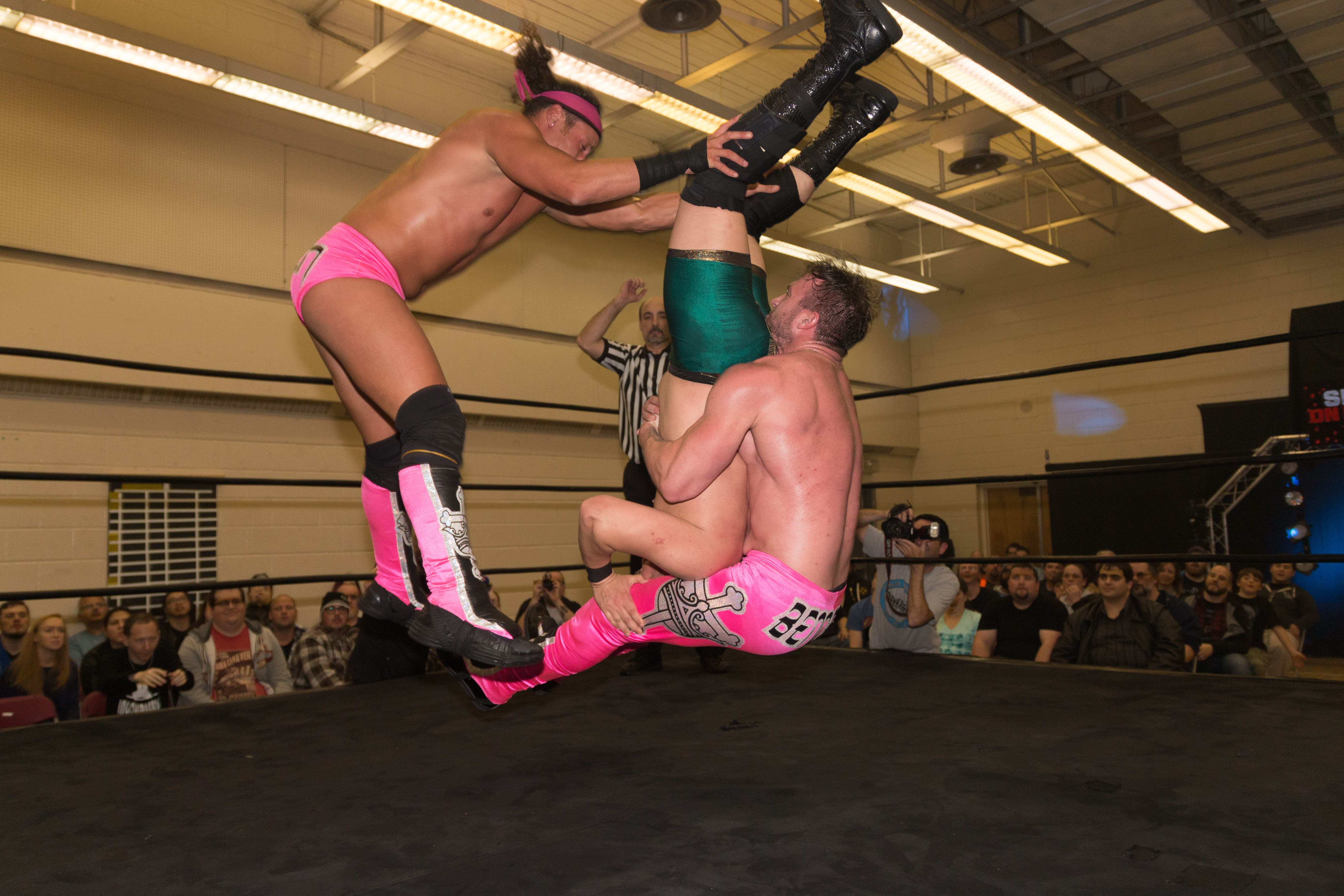 Matt Taven (left) assisting Michael Bennett in executing a piledriver on Sebastian Suave at a Smash Wrestling show in Etobicoke, ON